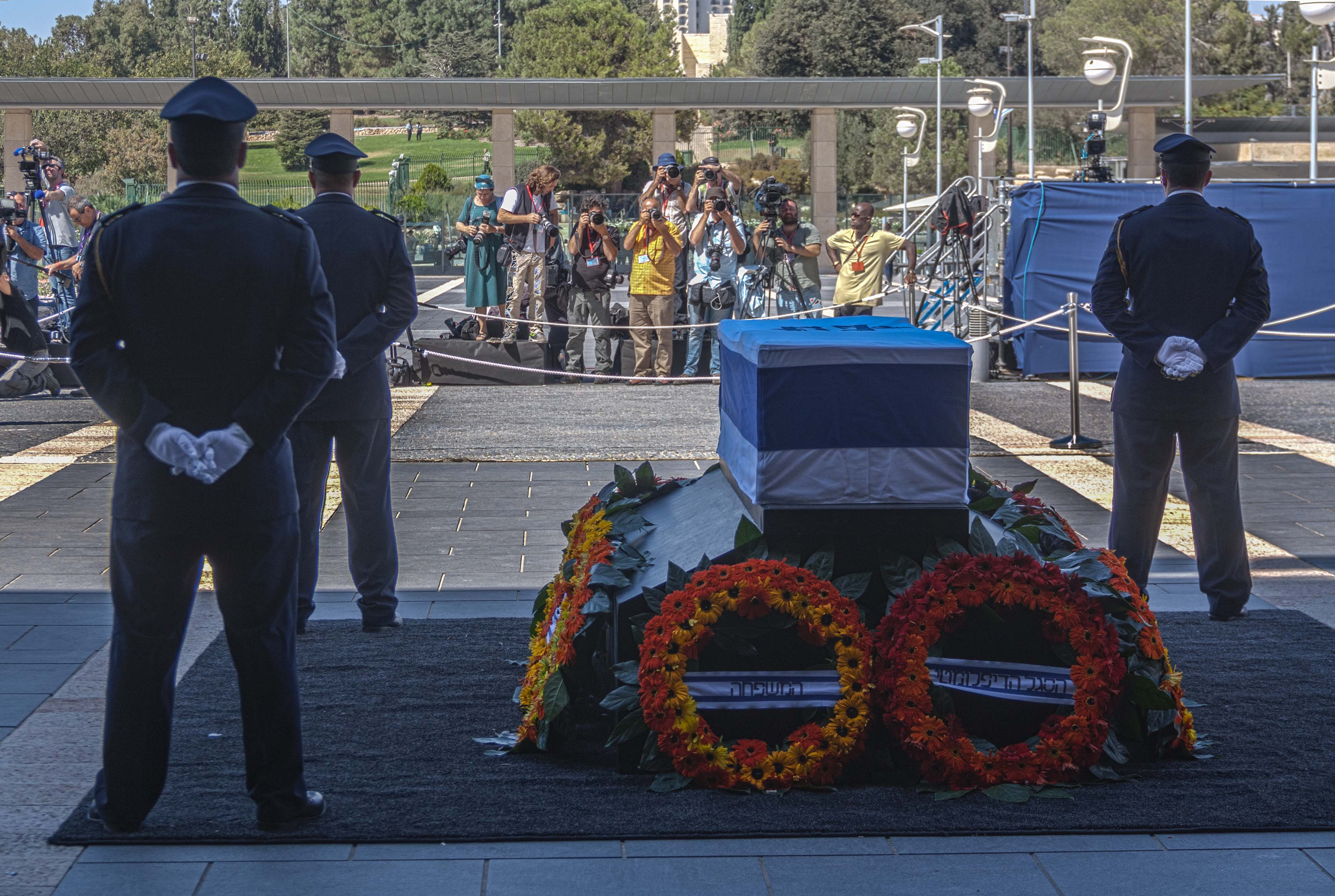 Coffin of Shimon Peres at the Knesset's yard